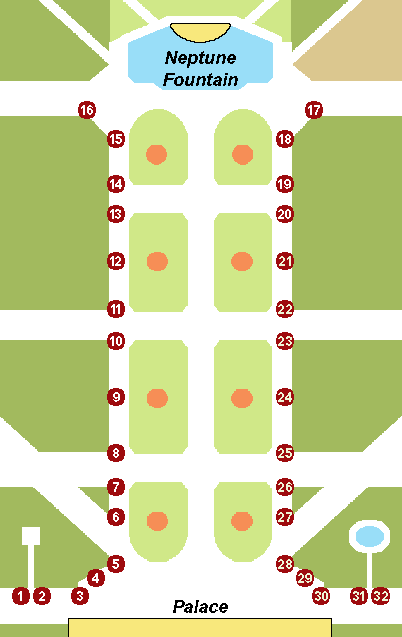 Orientation map on positions of the 32 statues along the Great Parterre, which forms the central (baroque) part of the gardens of Schönbrunn palace.. Übersicht über die Anordnung der 32 Statuen am Großen Parterre, dem barocken Mittelteil des Schönbrunner Schlossparks. 1) Artemisia 2) Kalliope 3) Brutus & Lucretia 4) Ceres & Bacchus 5) Aeneas & Anchises 6) Angerona 7) Jason 8) Aspasia 9) Omphale 10) Nymphe der Flora 11) Bacchantin 12) Apoll 13) Hygieía 14) Vestalin 15) Paris 16) Hannibal 17) Meleager 18) Merkur 19) Priesterin 20) Die Sibylle von Cumae 21) Aeskulap 22) Priesterin der Ceres 23) Priesterin der Ceres 24) Herkules 25) Perseus 26) Fabius Maximus Cunctator 27) Flora 28) Raub der Helena 29) Janus & Bellona 30) Mars & Minerva 31) Amphion 32) Gaius Mucius Scaevola